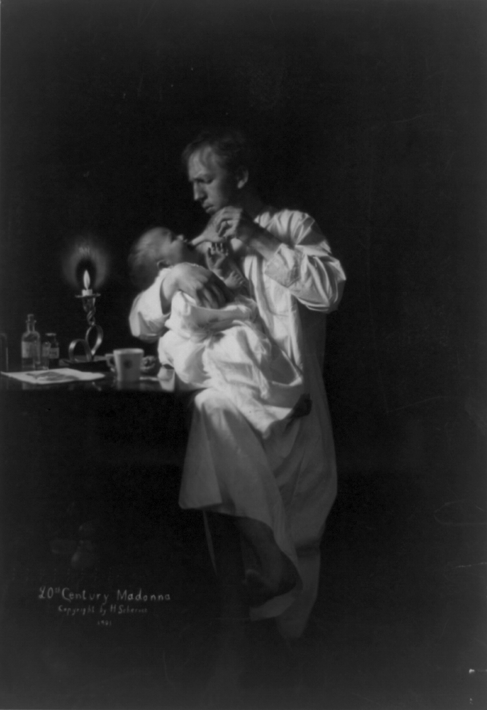 Man, in nightshirt, feeding baby by candlelight.